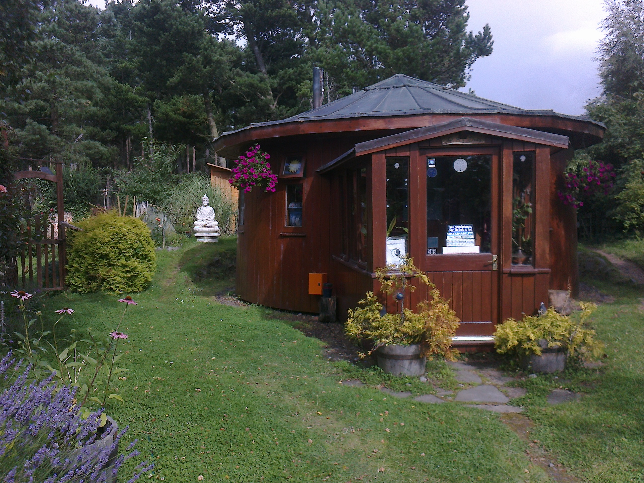 Round house made from an old Whisky barrel in the Findhorn Ecovillage, near Forres, Scotland